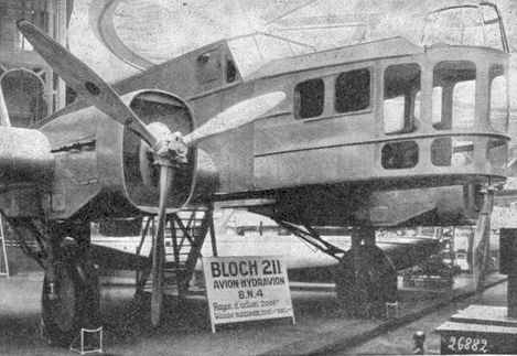 Bloch 211 photo from L'Aerophile December 1934